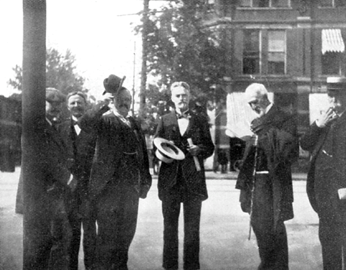 American paleontologist, ichthyologist and herpetologist Edward Drinker Cope at the 1896 Buffalo meeting of the American Association for the Advancement of Science.